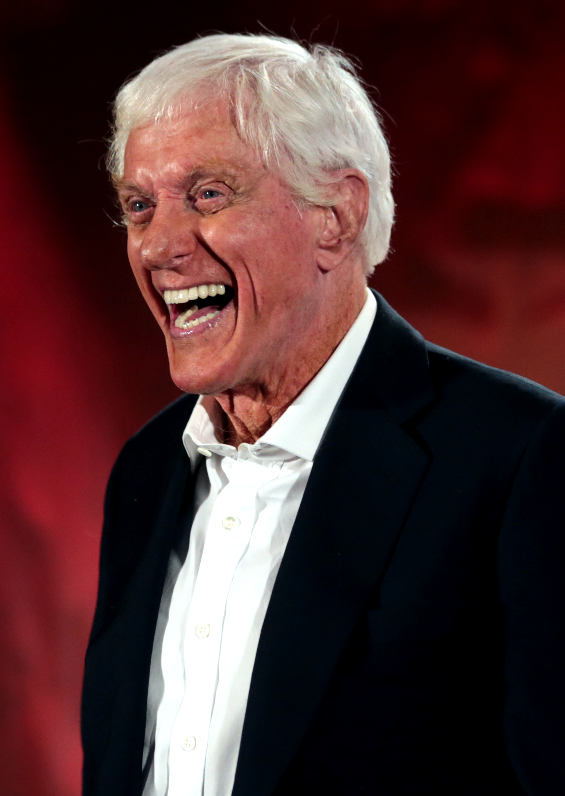 Dick Van Dyke speaking at the 2017 Phoenix Comicon in Phoenix, Arizona.